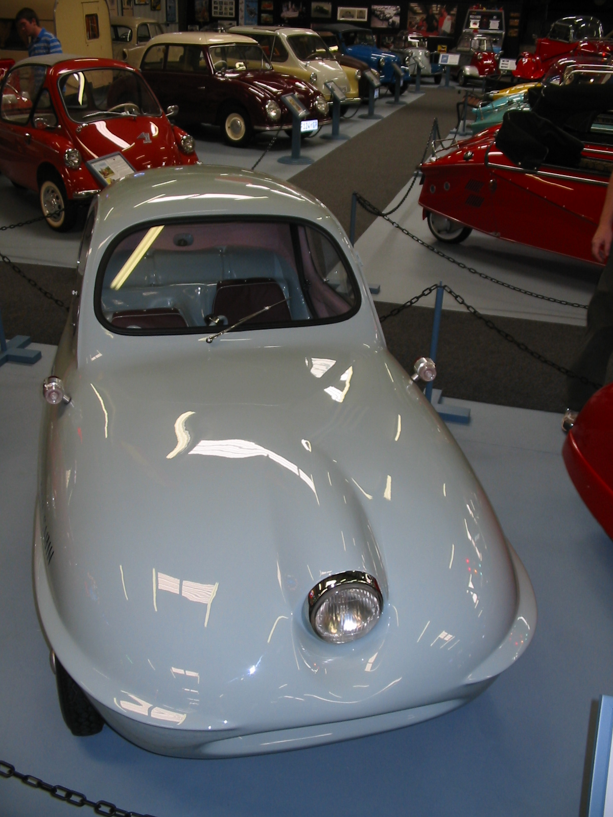 Described here , Note similarity to the Corbin Sparrow.